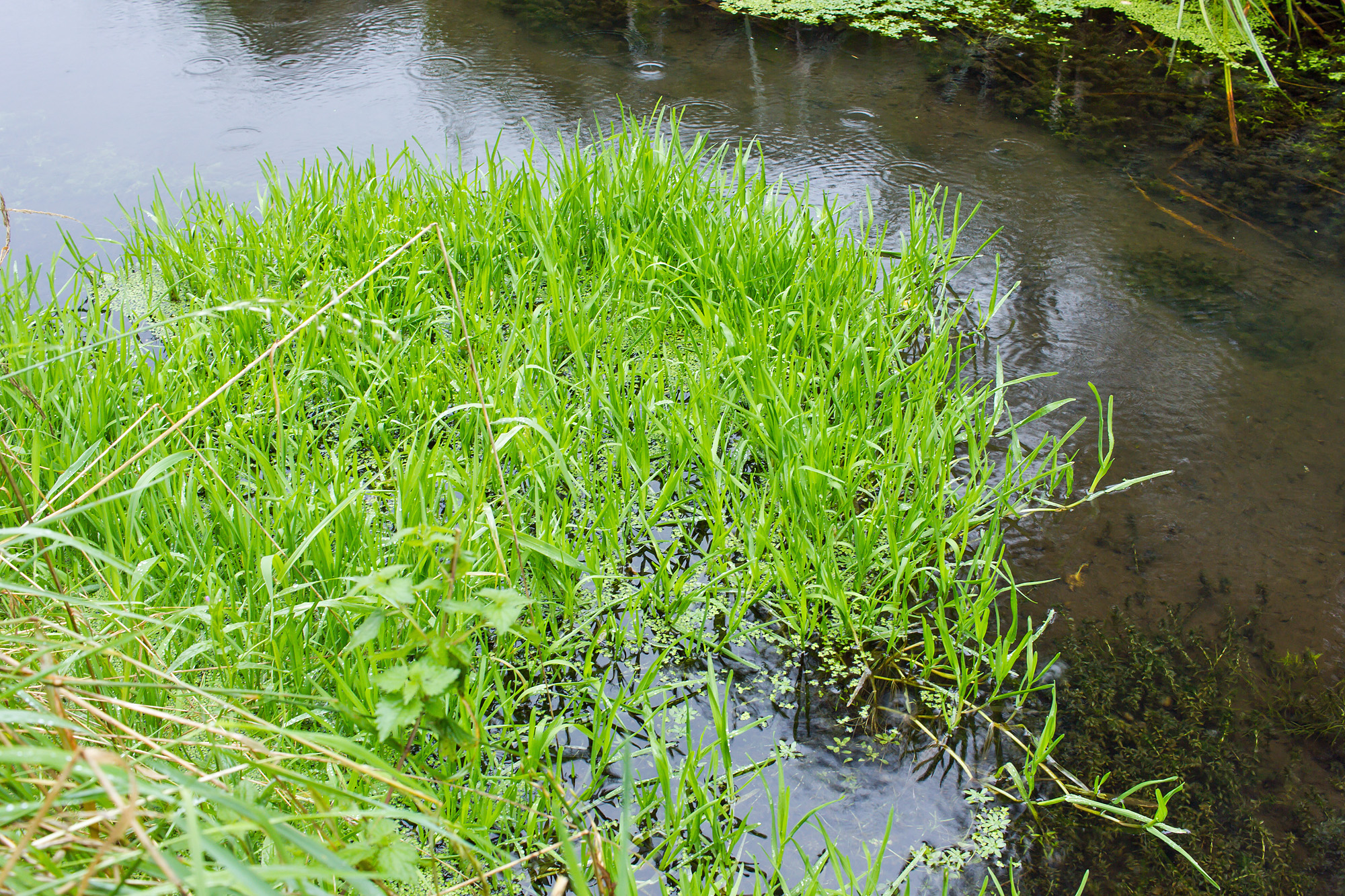 Aspect of the grass Catabrosa aquatica, flooding in a ditch.